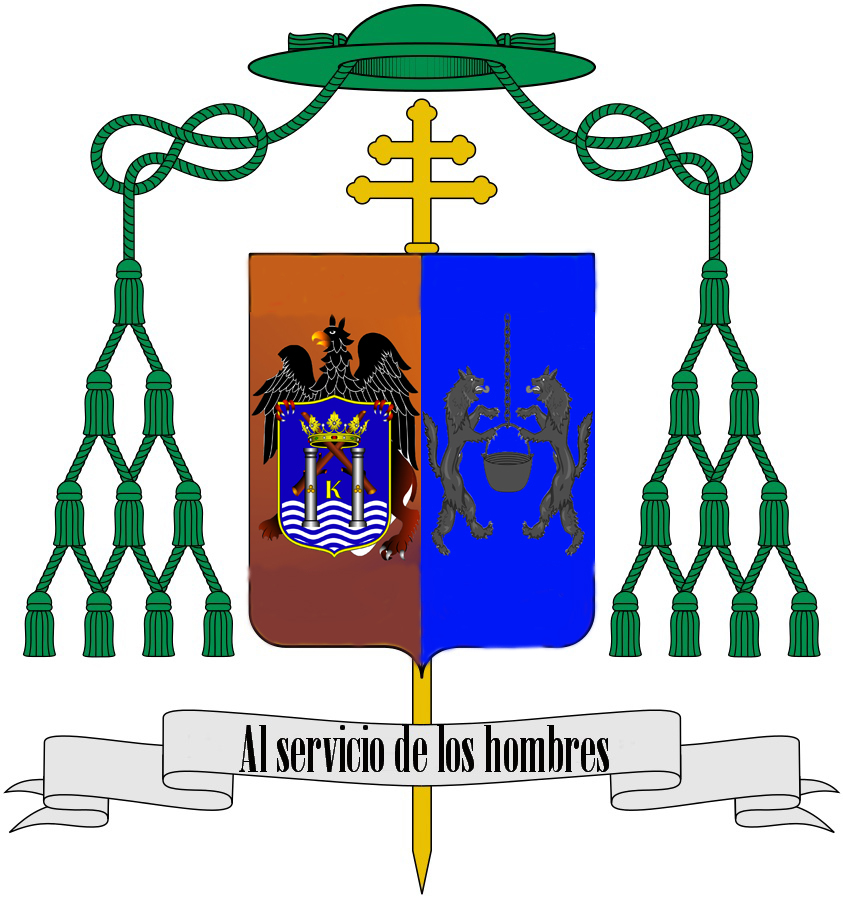 Escudo